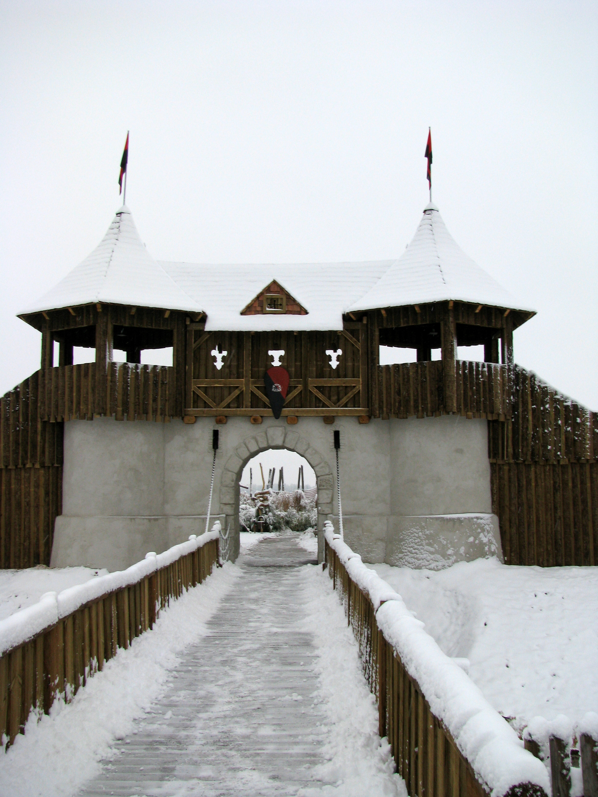 Draw bridge of the weir system of the themepark Weltentor in Winter 2008